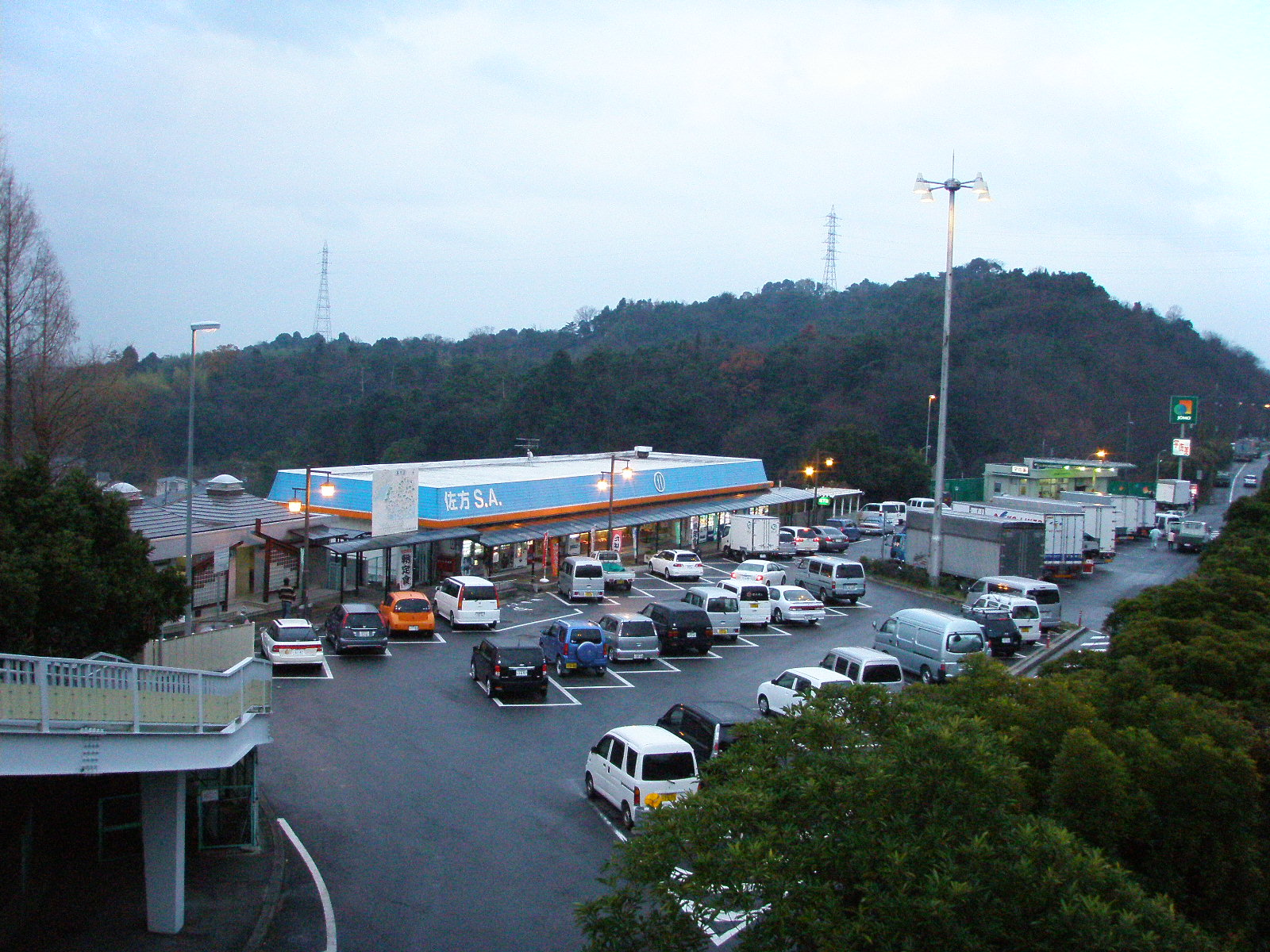 Nishihiroshima By-Pass Sagata Service Area downside（for Shimonoseki、Kitakyushu）